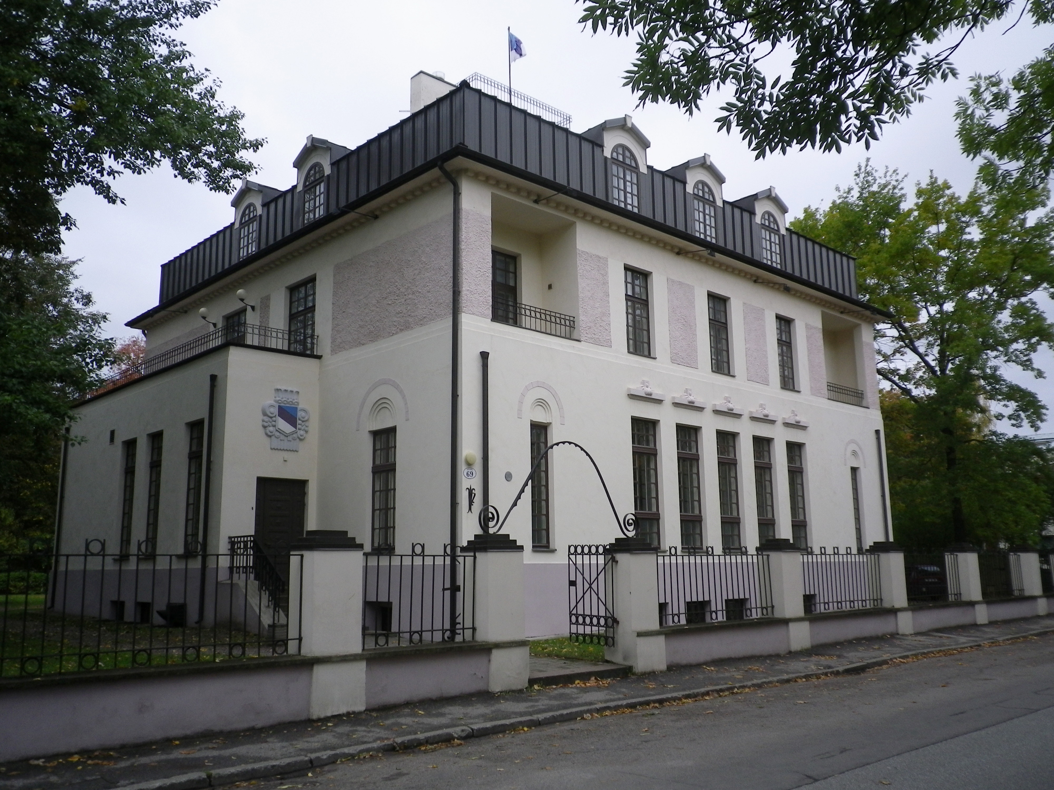 Sakala student fraternity. 69 Veski St, Tartu